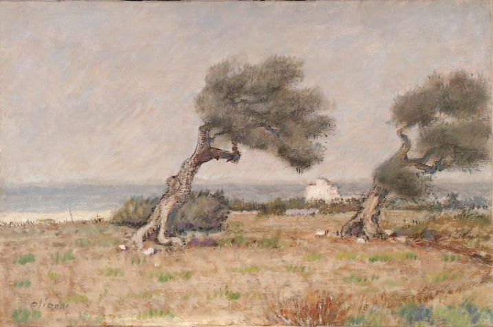 Painting by Silvio Oliboni : Marina Pugliese / 1244ac